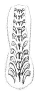 Drawing radula of Limacina helicina. Magnified 60×.